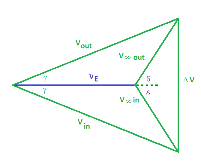 Gravity assist velocity diagram. From Byrnes, Dennis V.; Longuski, James M.; Aldrin, Buzz (1993). "Cycler orbit between Earth and Mars". Journal of Spacecraft and Rockets. 30 (3): 334–336.